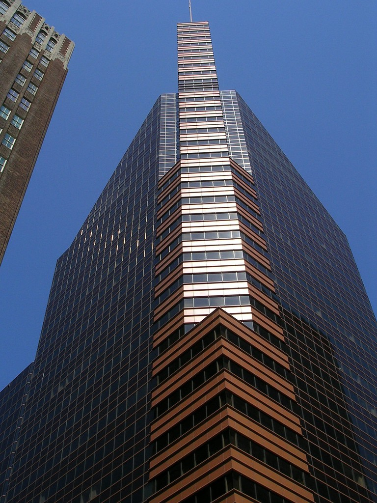 The William Donald Schaefer Tower in Baltimore. Houses the headquarters of the Maryland Transit Agency